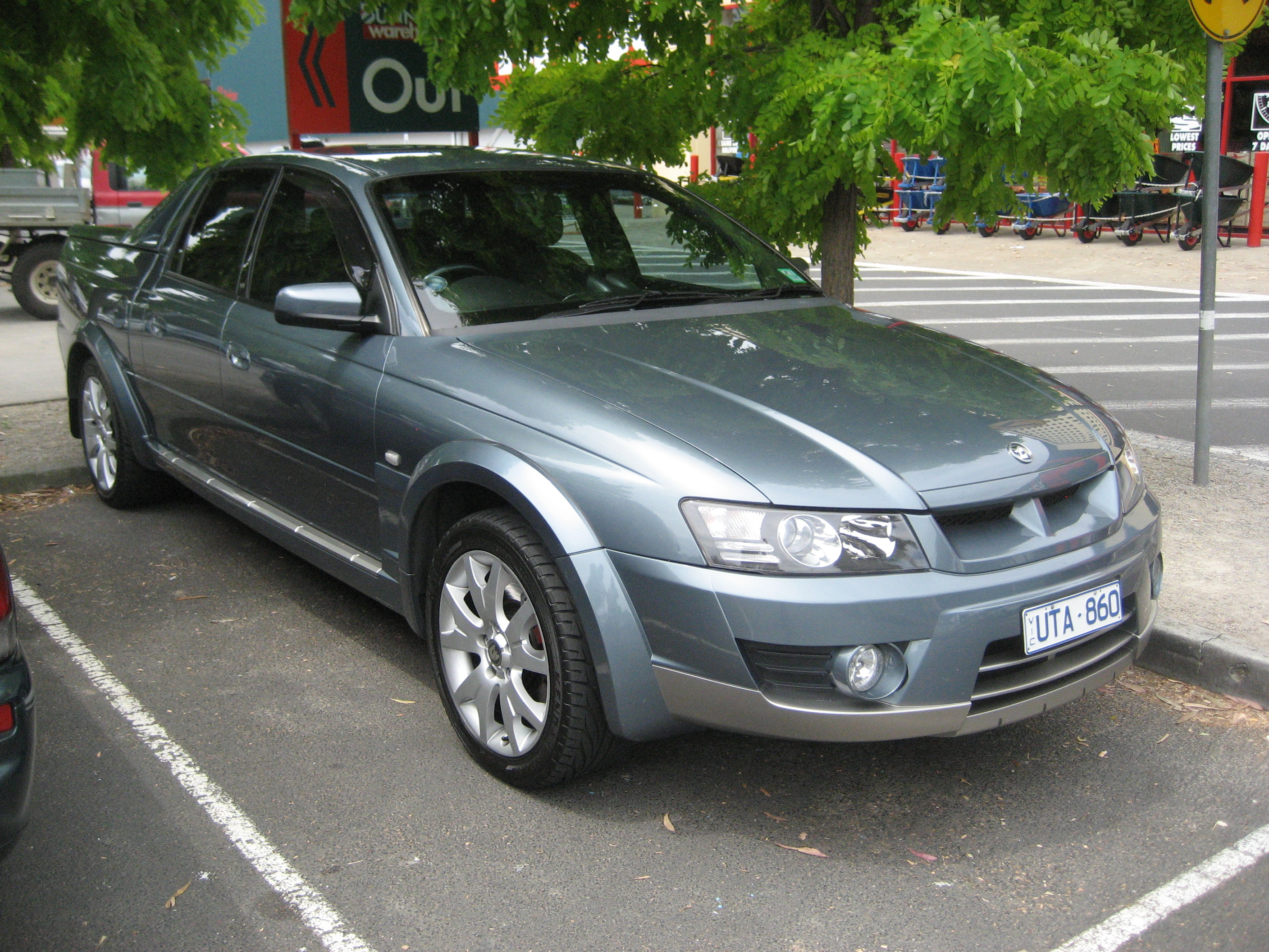 2004-2005 HSV Avalanche XUV (Y Series II, late 2004 facelift)